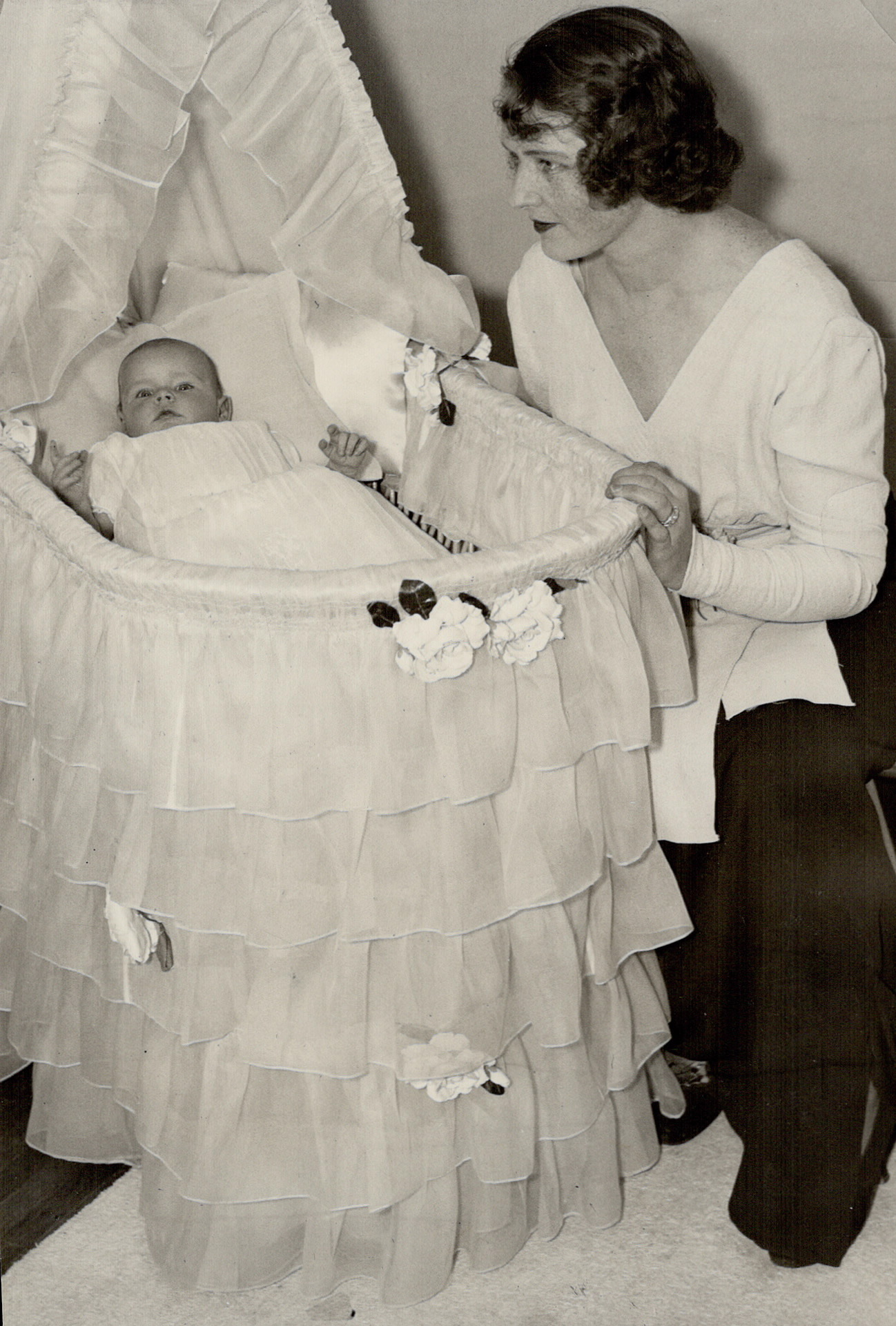 Mrs E. H. Gooderham of Toronto and her infant son; Edward Douglas. Mrs Gooderham is the former Cecil Eustace Smith; well-known champion figure skater